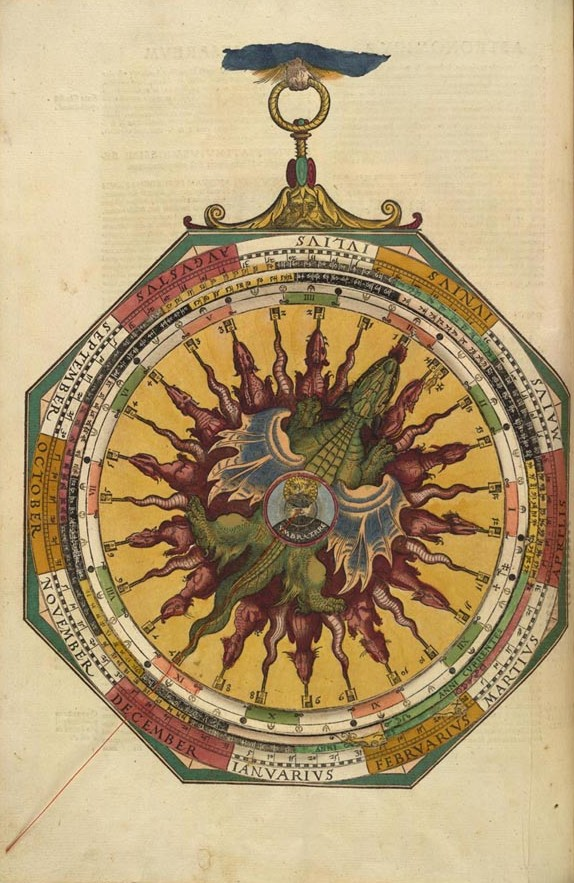 A page from Petrus Apianus' Astronomicum Caesareum.